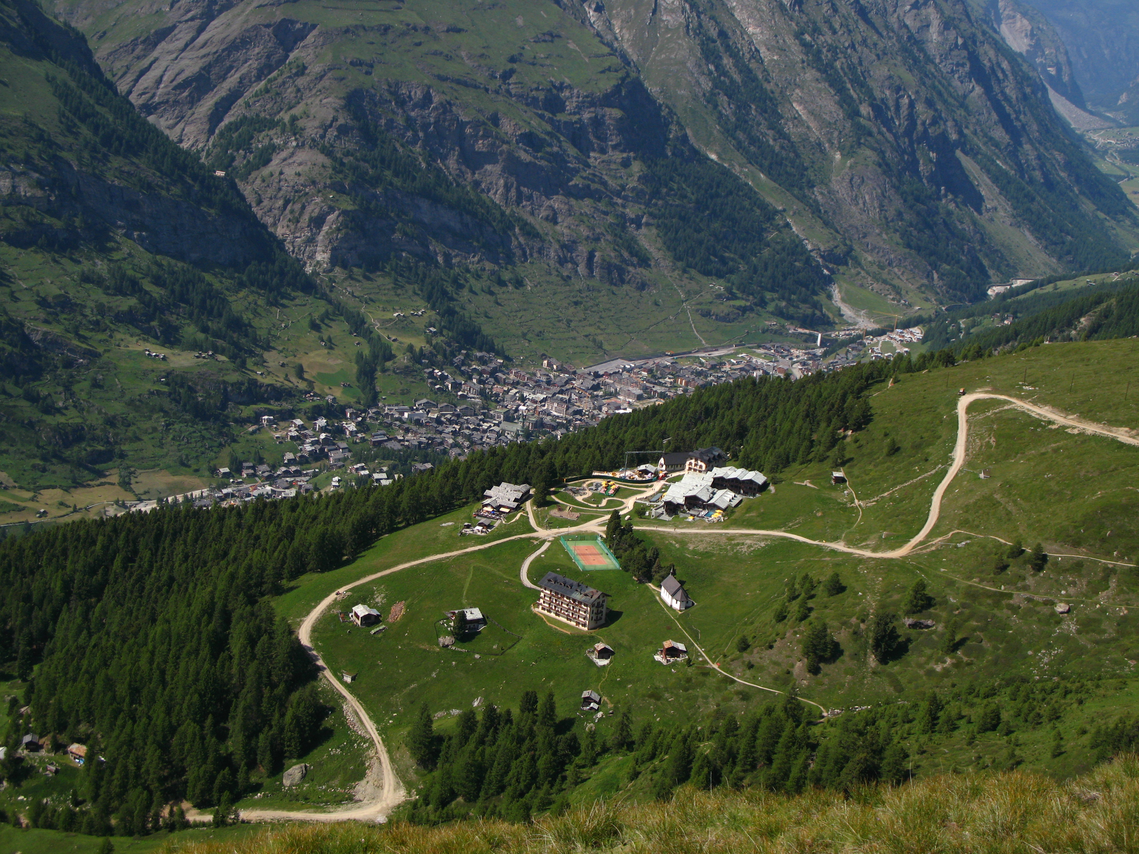 Zermatt and Riffelalp viewed from Riffelberg, Switzerland